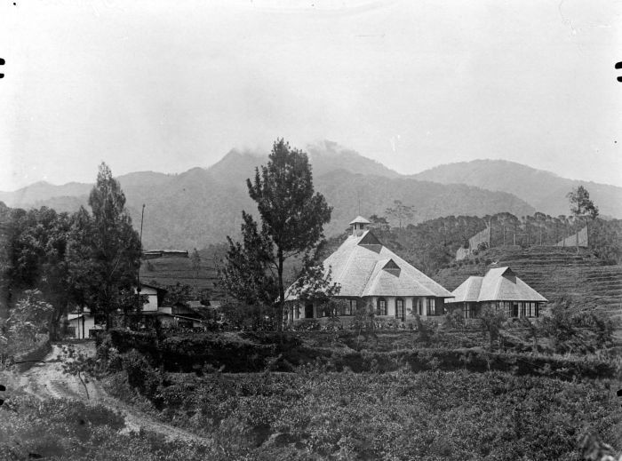 A tea factory located at Penampean, Tulungagung